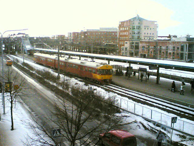 Malmi railway station in Helsinki, Finland